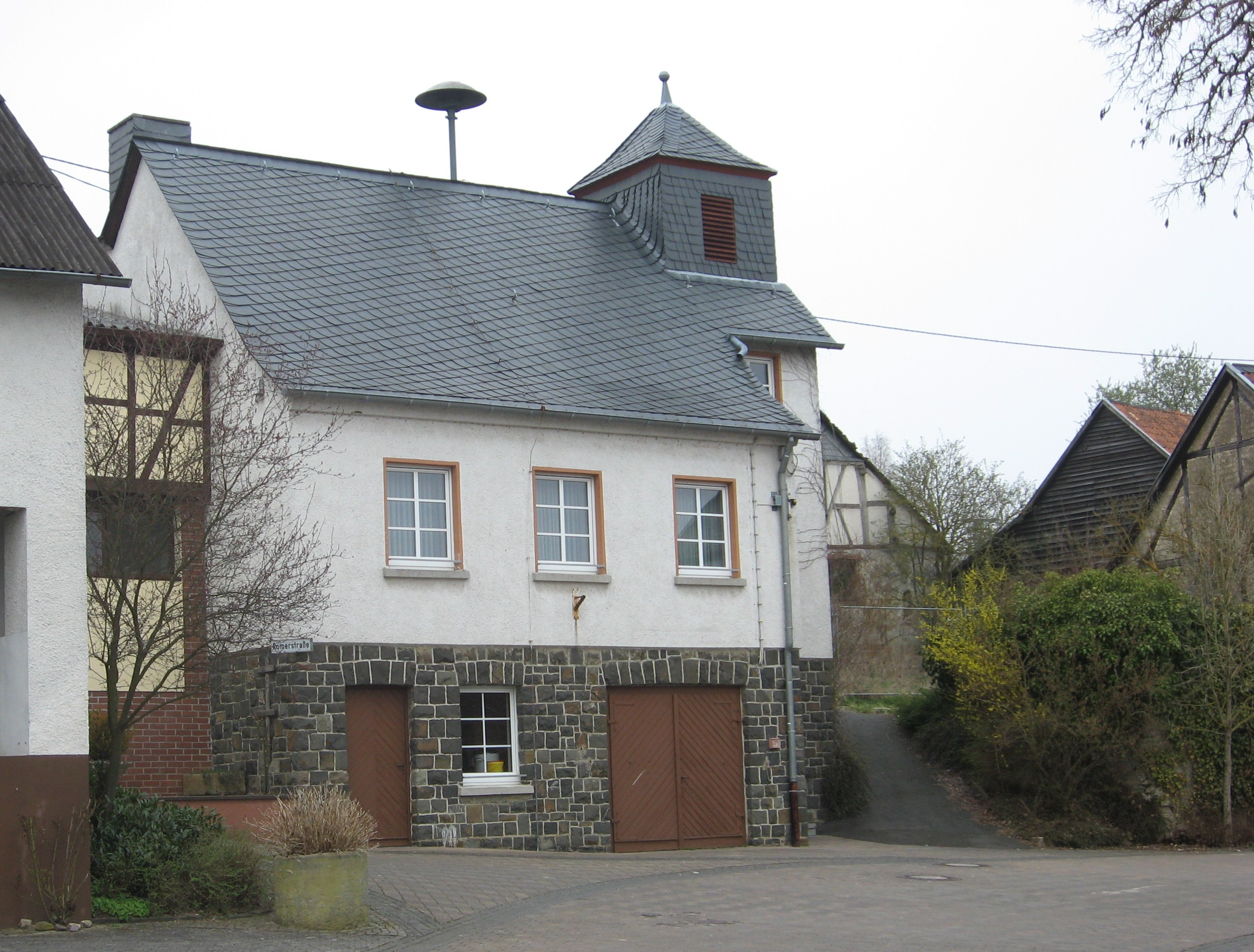 Central building is a village in the southern Hunsrück landscape, Germany.